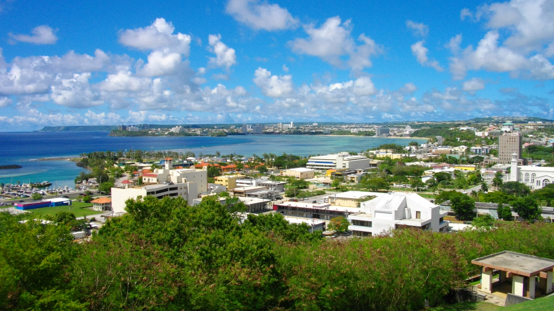 Hagatna from Fort Santa Agueda